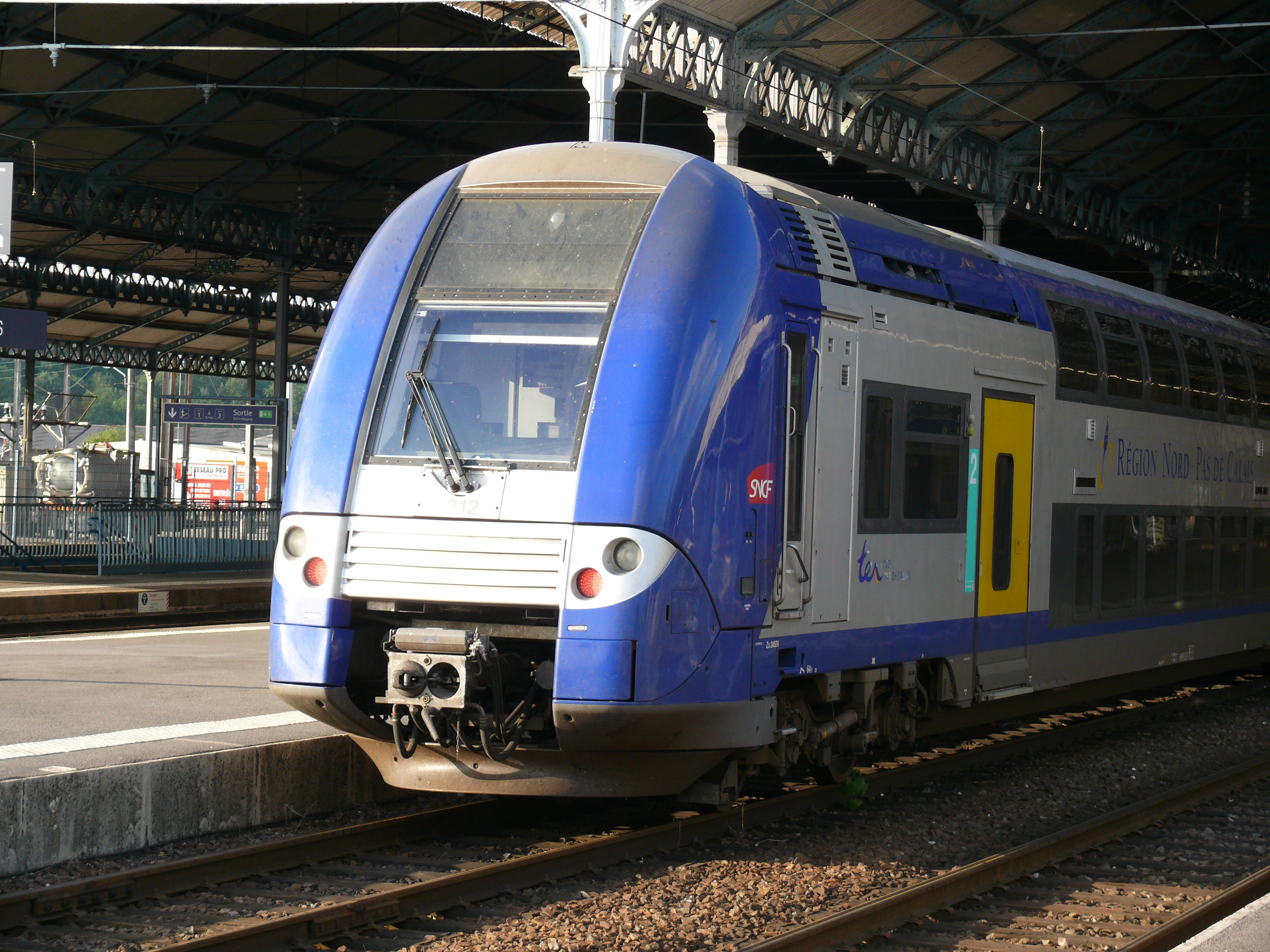 SNCF train Z 24524 of the TER Nord-Pas-de-Calais, the regional rail network serving Nord-Pas-de-Calais région, France, in the station of Charleville Mézières.